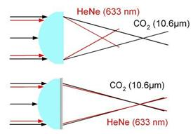 Dual Wave lens